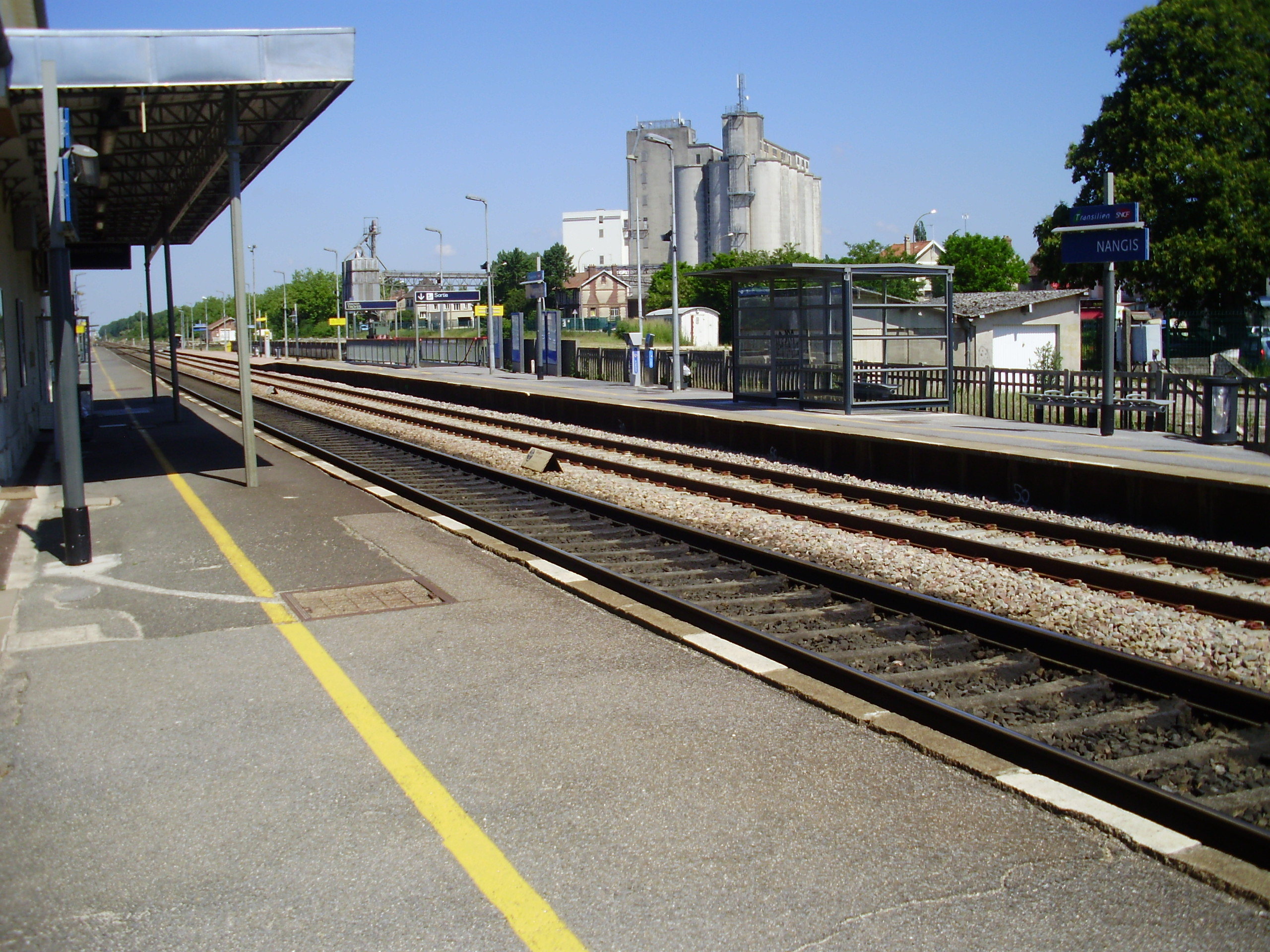 Nangis station, Seine-et-Marne, France (view towards Paris)